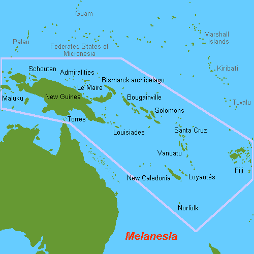 Map (rough) of Melanesia, Oceania, own work composed from various mapreferences